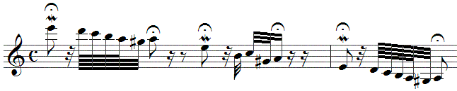 Bach, Toccata and Fugue in D minor, opening, conjectured violin version by Peter Williams Image is released to public domain.